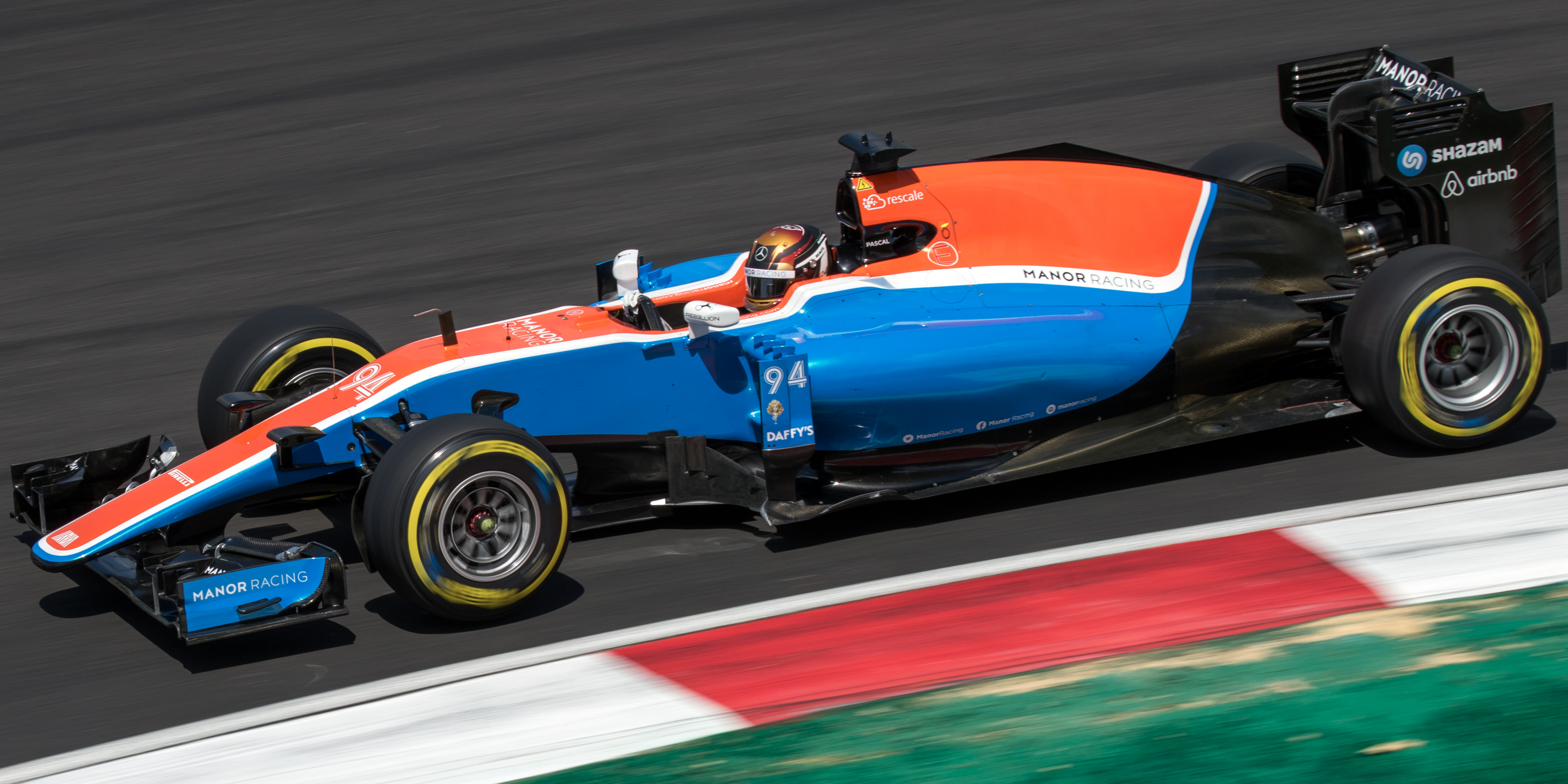 Formula One 2016 Rd.16 Malaysian GP: Pascal Wehrlein (MRT)